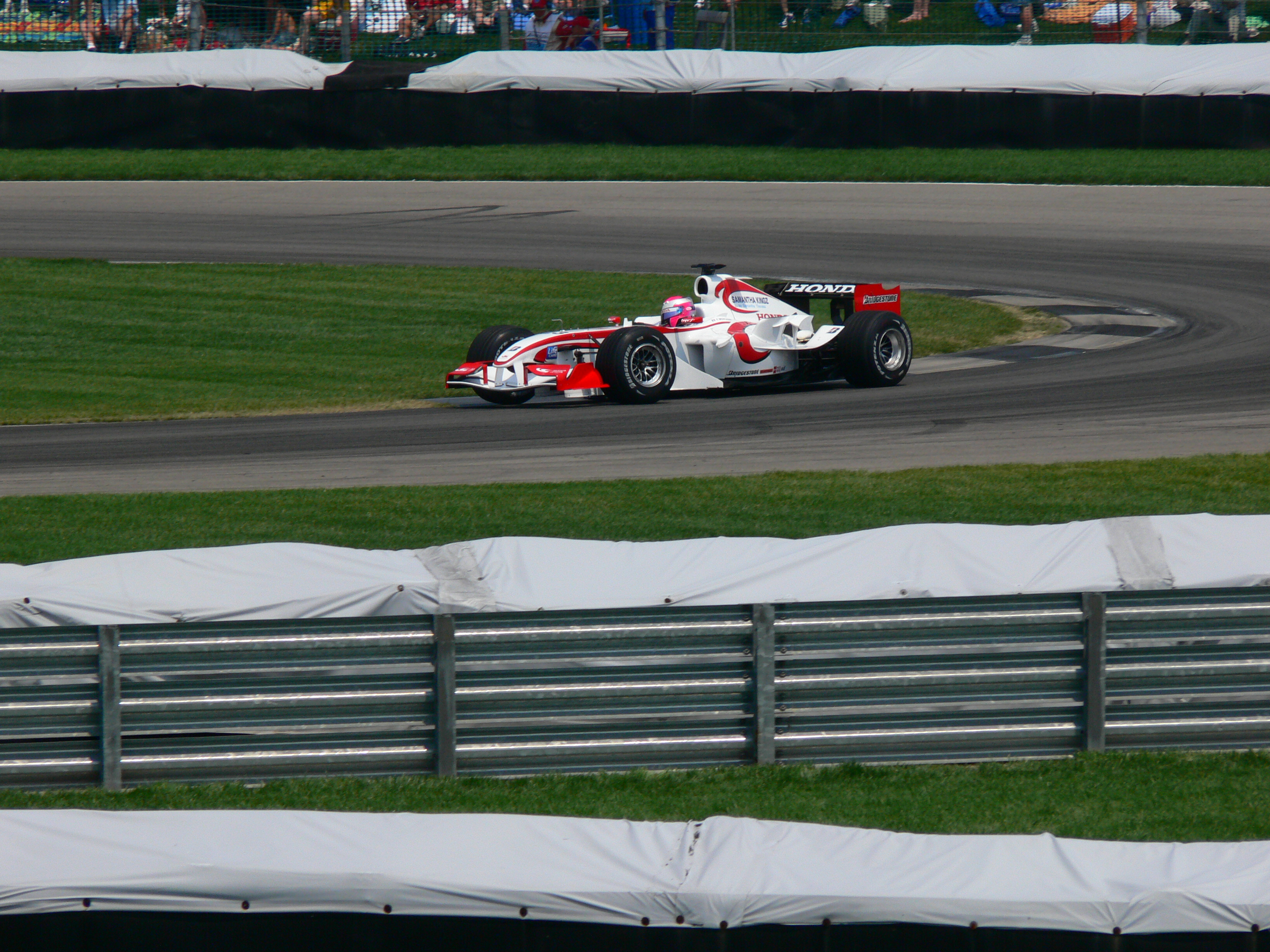 Franck Montagny, driving his Super Aguri Honda at the 2006 United States Grand Prix.